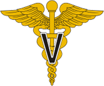 United States Army Veterinarian collar brass. Made with Photoshop.